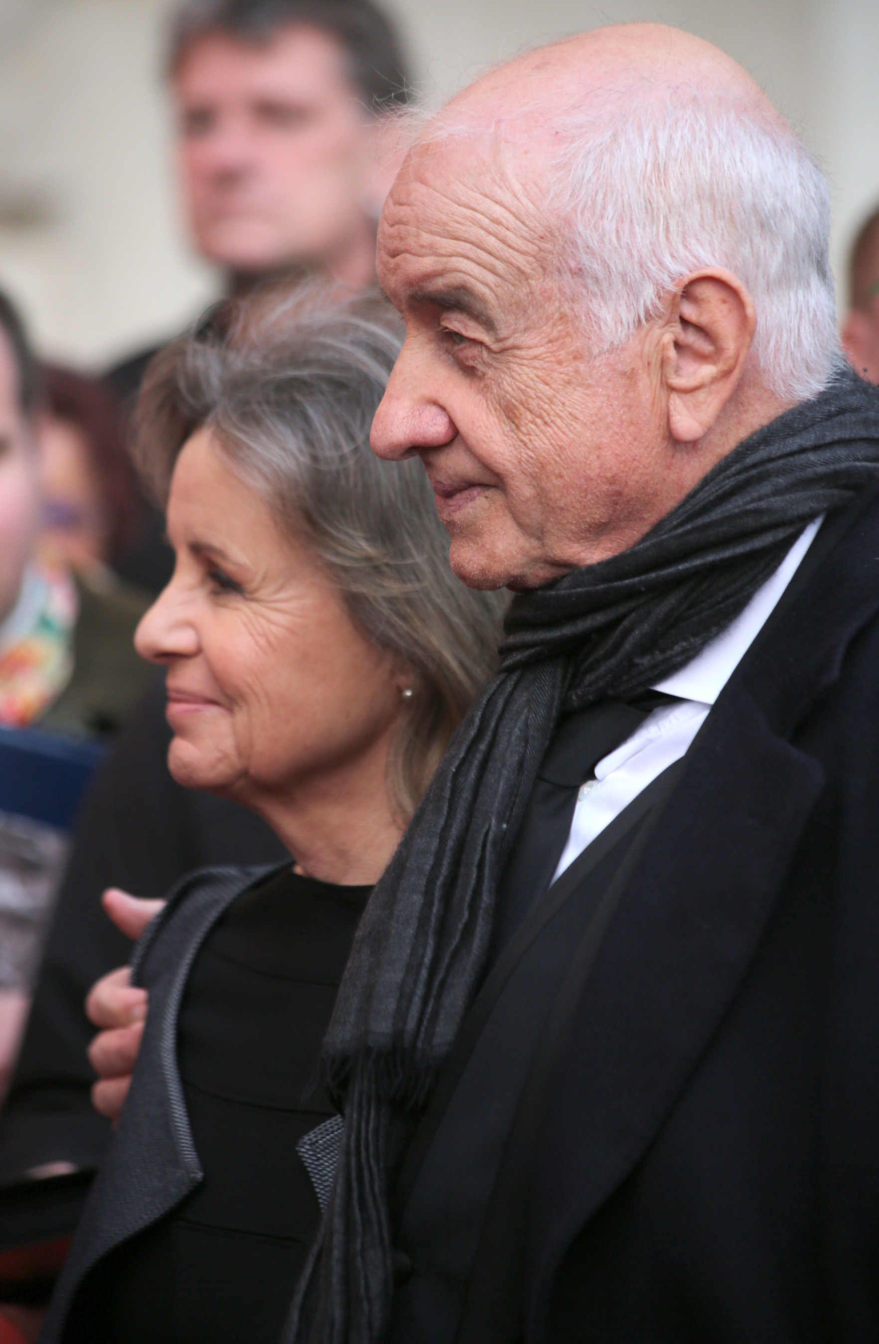 Armin Mueller-Stahl and Gabriele Scholz at the Romy film awards (Hofburg Imperial Palace in Vienna)